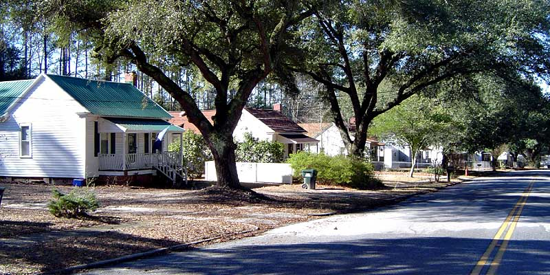 Mill houses, Vaucluse South Carolina. Photograph 2007 by P J Hughes